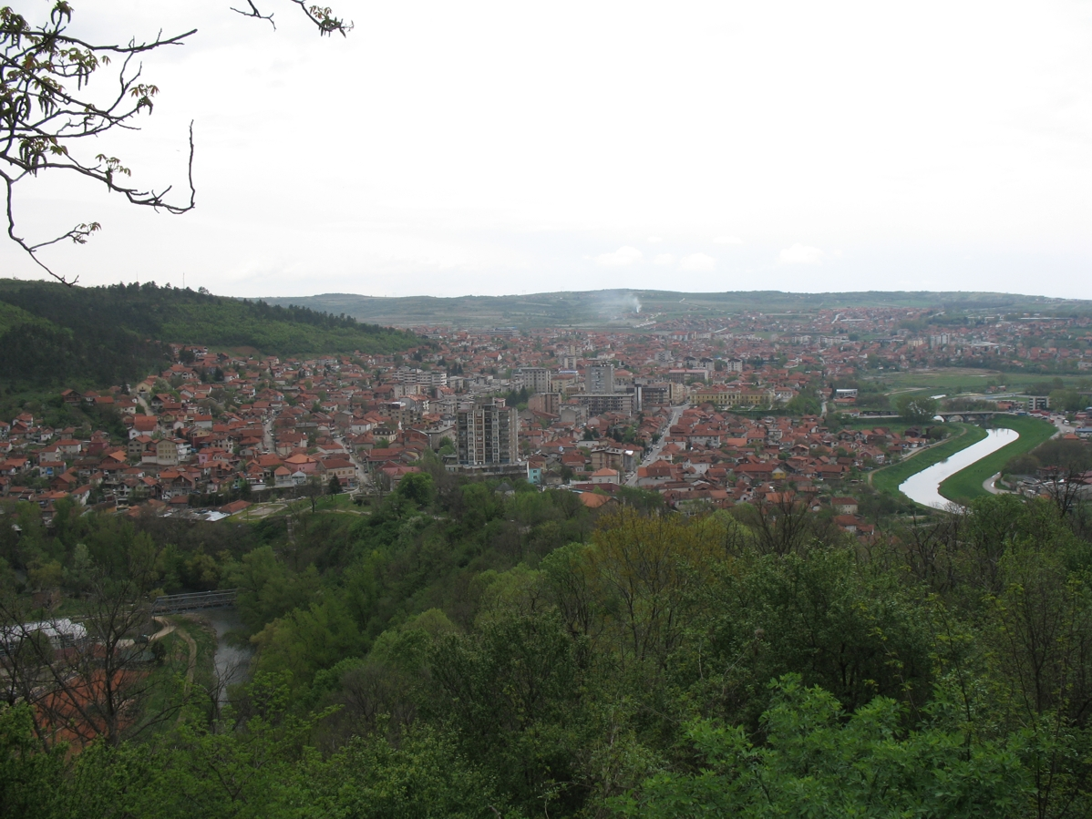 View on Prokuplje form Savićevac on Hisar hill, Serbia.